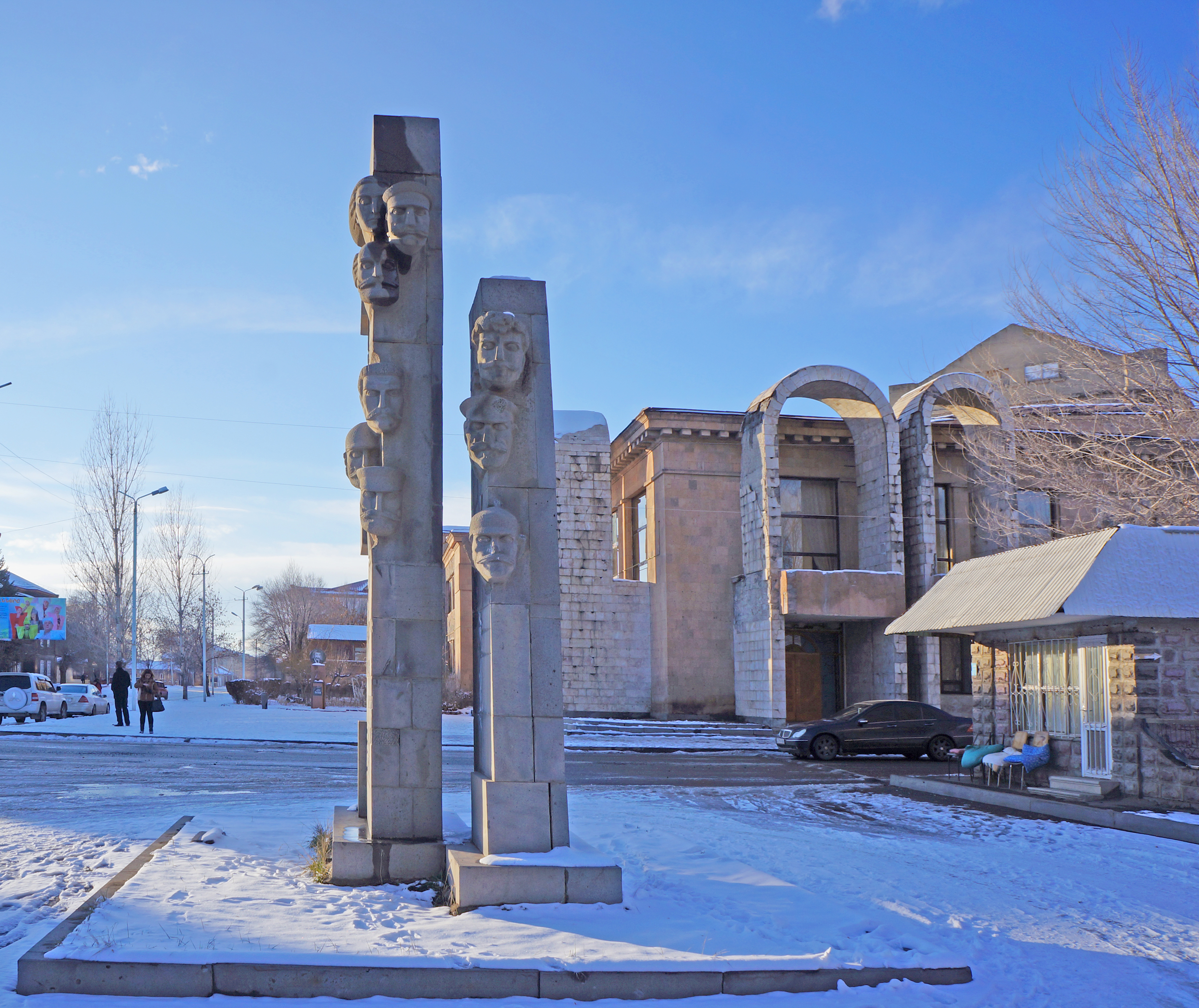 The May Uprising ( was a coup d'état attempt by the Armenian Bolsheviks that started in Alexandropol (now Gyumri) on May 10, 1920) heros statue in Gyumri Armenia 1/4.886